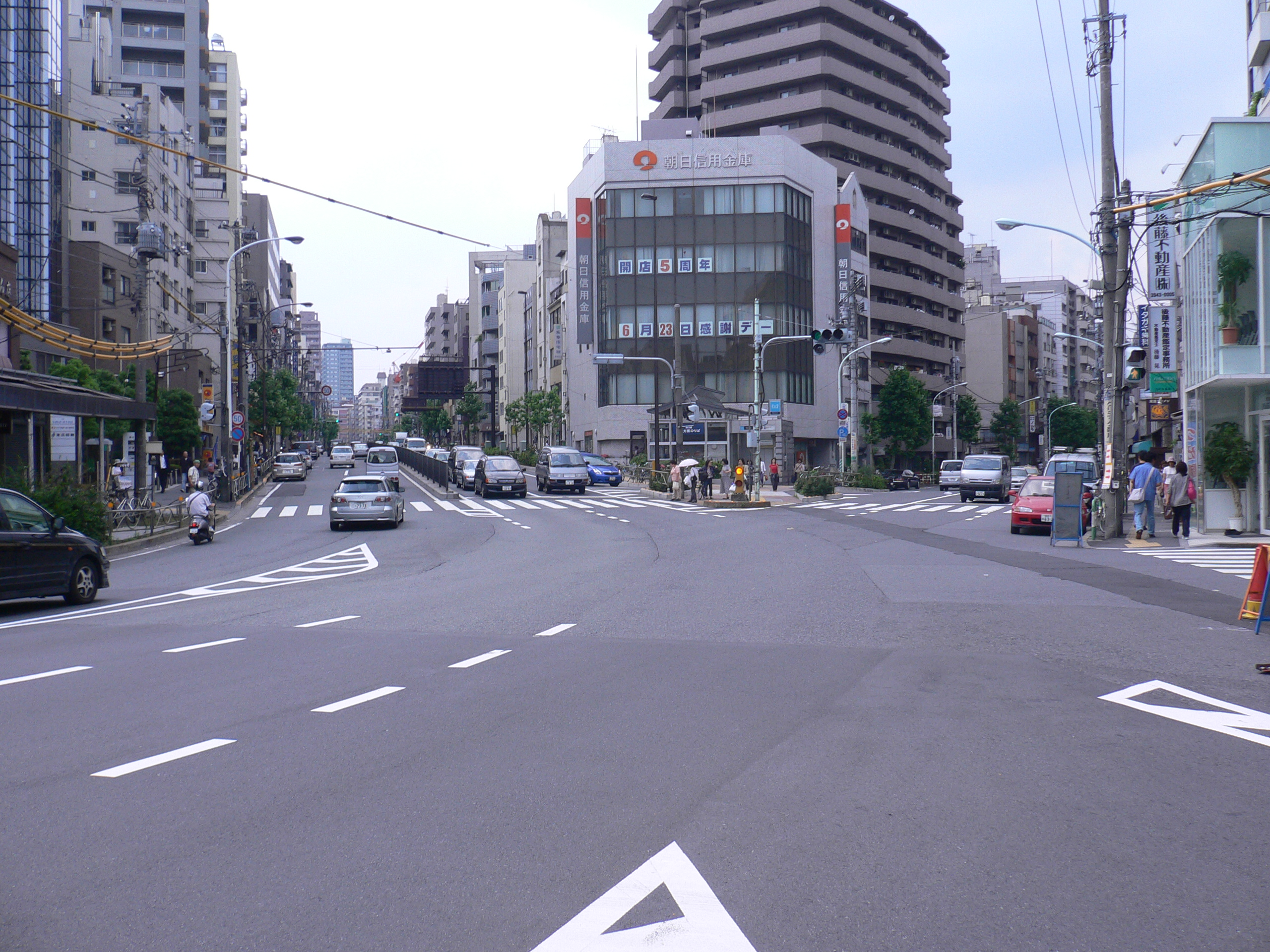 Shin-Otsuka Station(新大塚駅),Bunkyo W, Tokyo M.